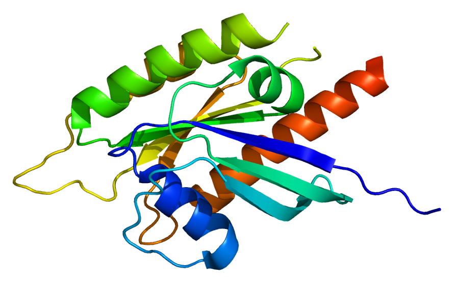 Structure of the CENTG1 protein. Based on PyMOL rendering of PDB 2bmj.